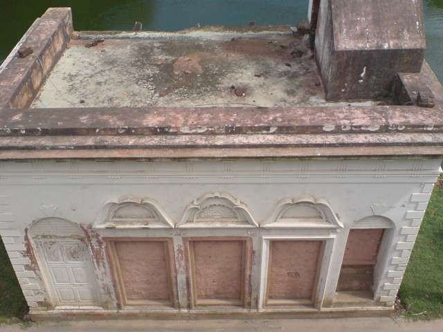 Several hundred years old city building at Sonarga, Narayangang Bangladesh.